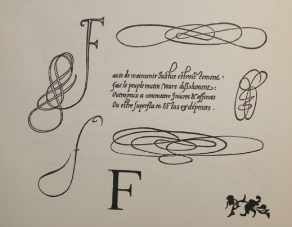 Calligraphy example